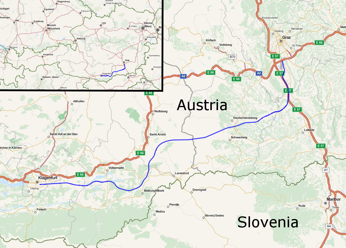 Track of the Koralm Railway between Graz and Klagenfurt (in blue), Austria. Currently under construction.